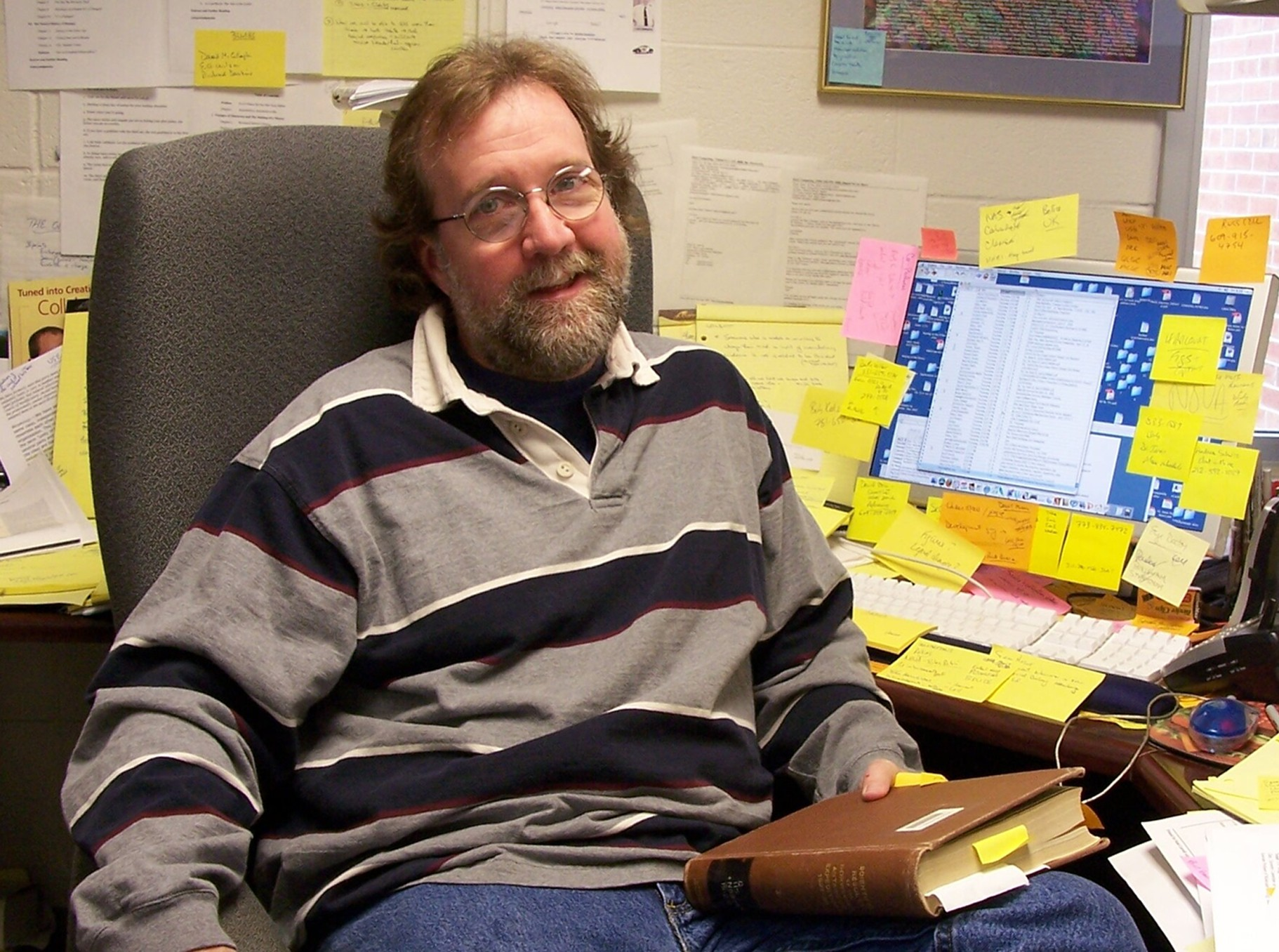 Photo of an evolutionary biologist Sean B. Carroll.